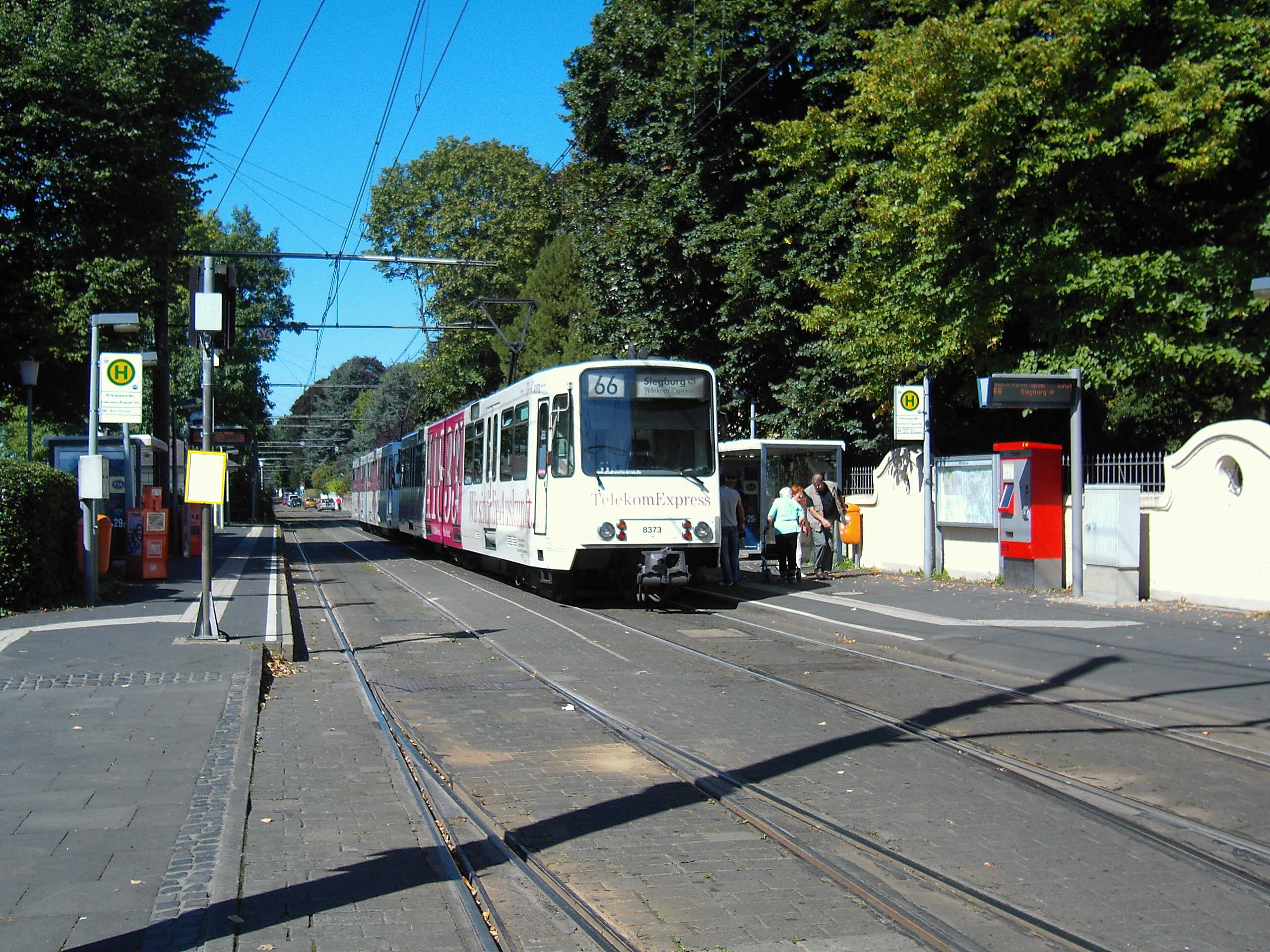 City railway stop Königswinter Clemens-August-Straße in Königswinter.